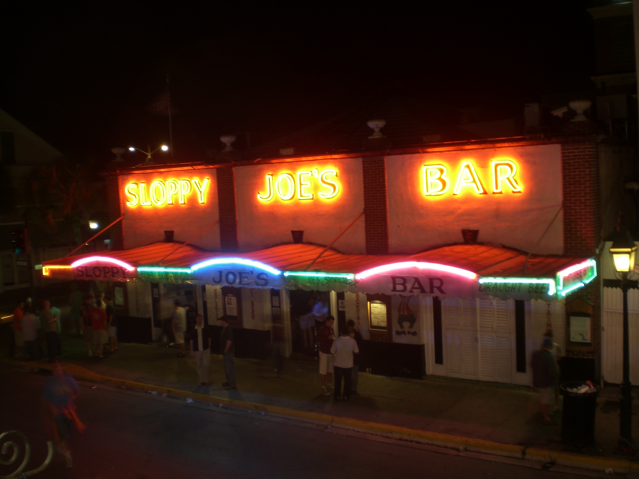 Digital photo taken by Marc Averette. Famous Sloppy Joe's Bar as seen from Rick's Bar across Duval Street in downtown Key West, Florida 2/10/2007. Category:Buildings and structures in Key West, Florida Category:Visitor attractions in Key West, Florida